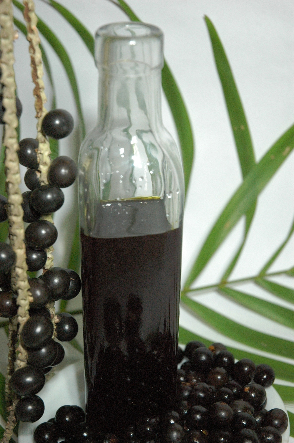 Açaí virgim oil